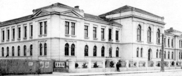 Gymnasium in Nis (1922) Srpski (latinica): Zgrada Prve niške gimnazije iz 1922